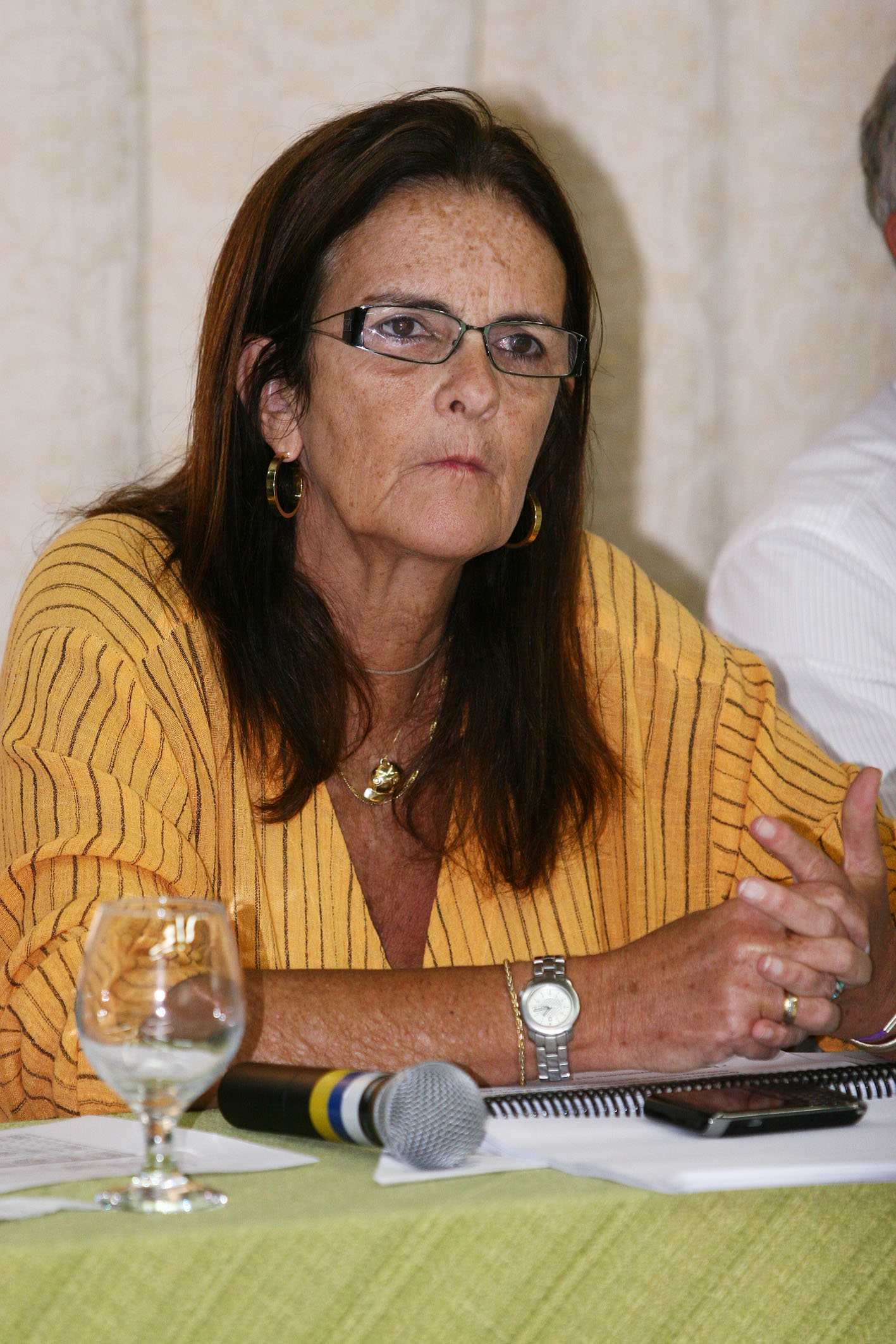 Graça Foster